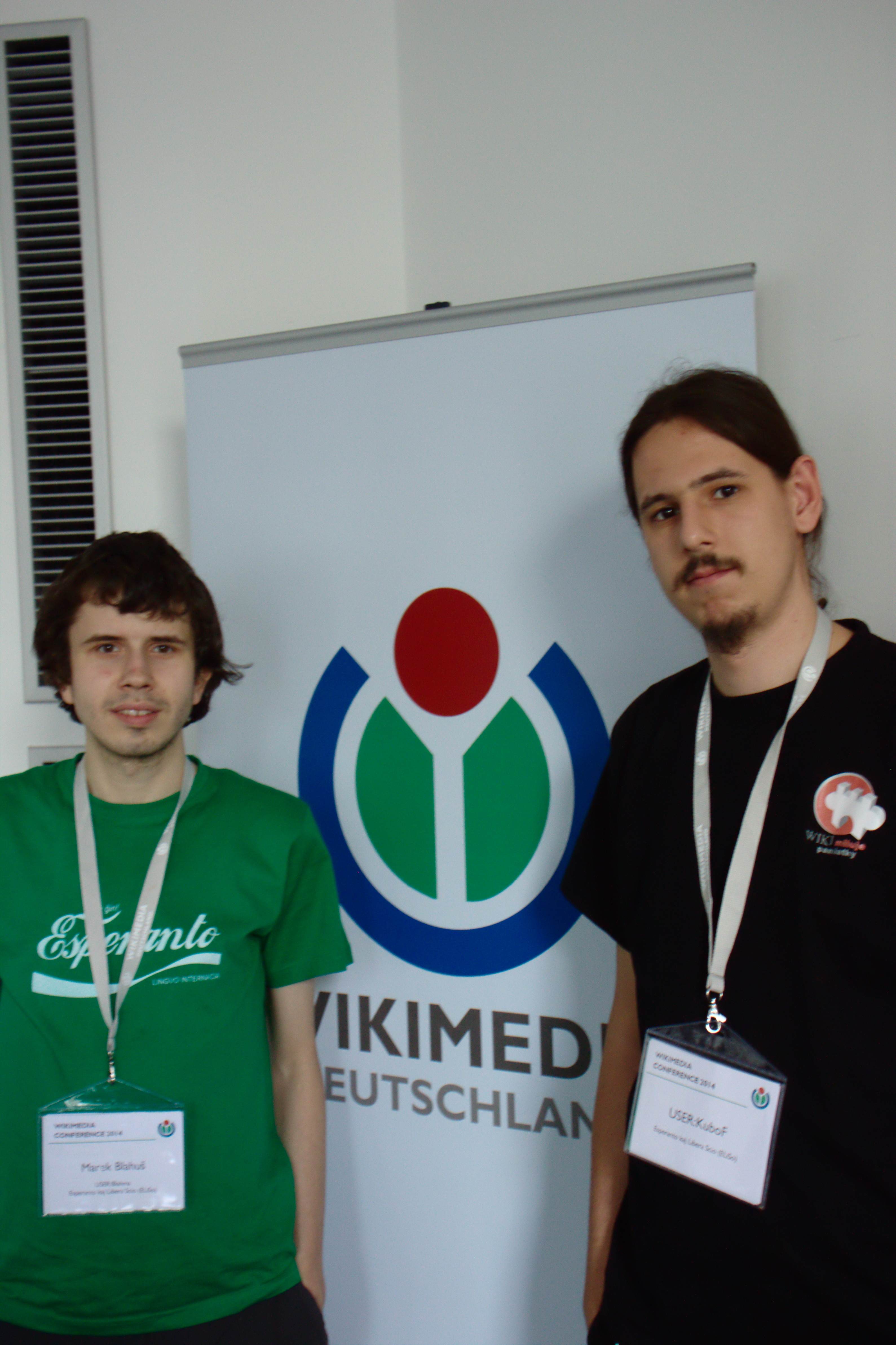 The Wikimedia Conference in Berlin, april 2014